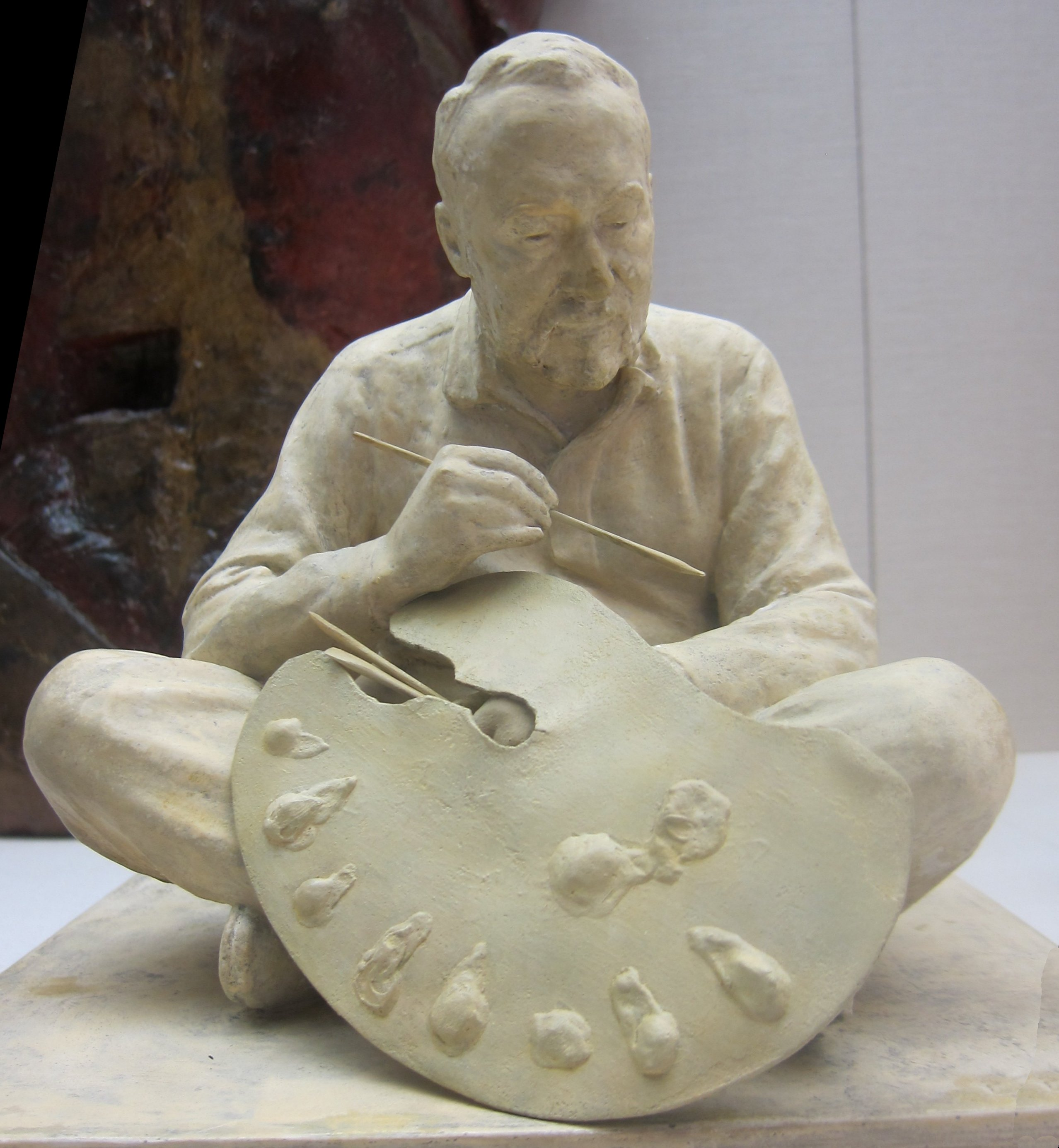 Thomas Eakins, painted plaster with lead palette by Samuel Murray, 1907, Pennsylvania Academy of the Fine Arts